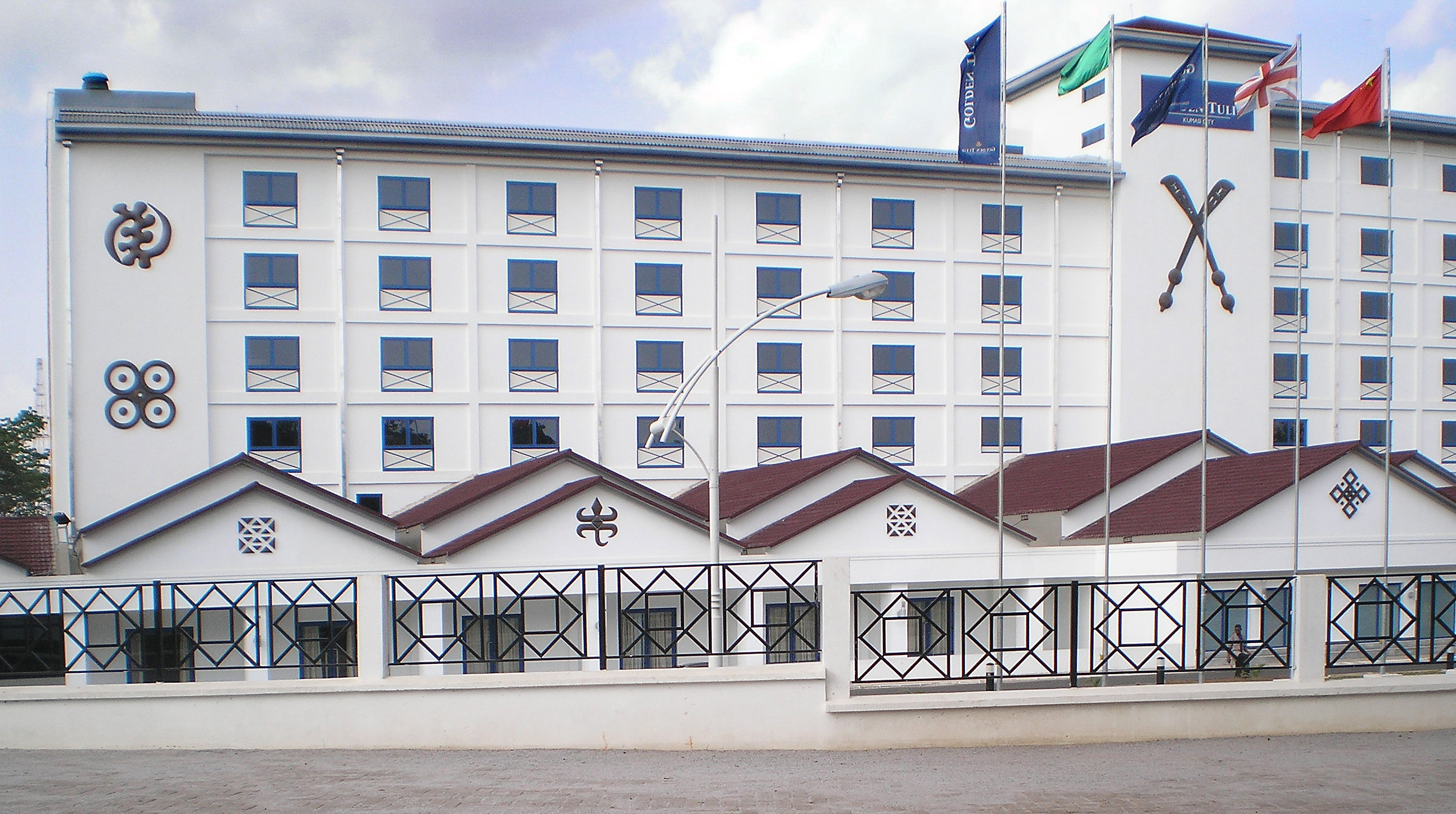 The old City Holtel was renovated and reopened as Golden Tulip Hotel in Kumasi, Ghana for the African Cup of Nations (CAF) football tournament in 2008 January. The hotel is decorated with adinkra symbols. The picture shows the front view of the left wing of the building.